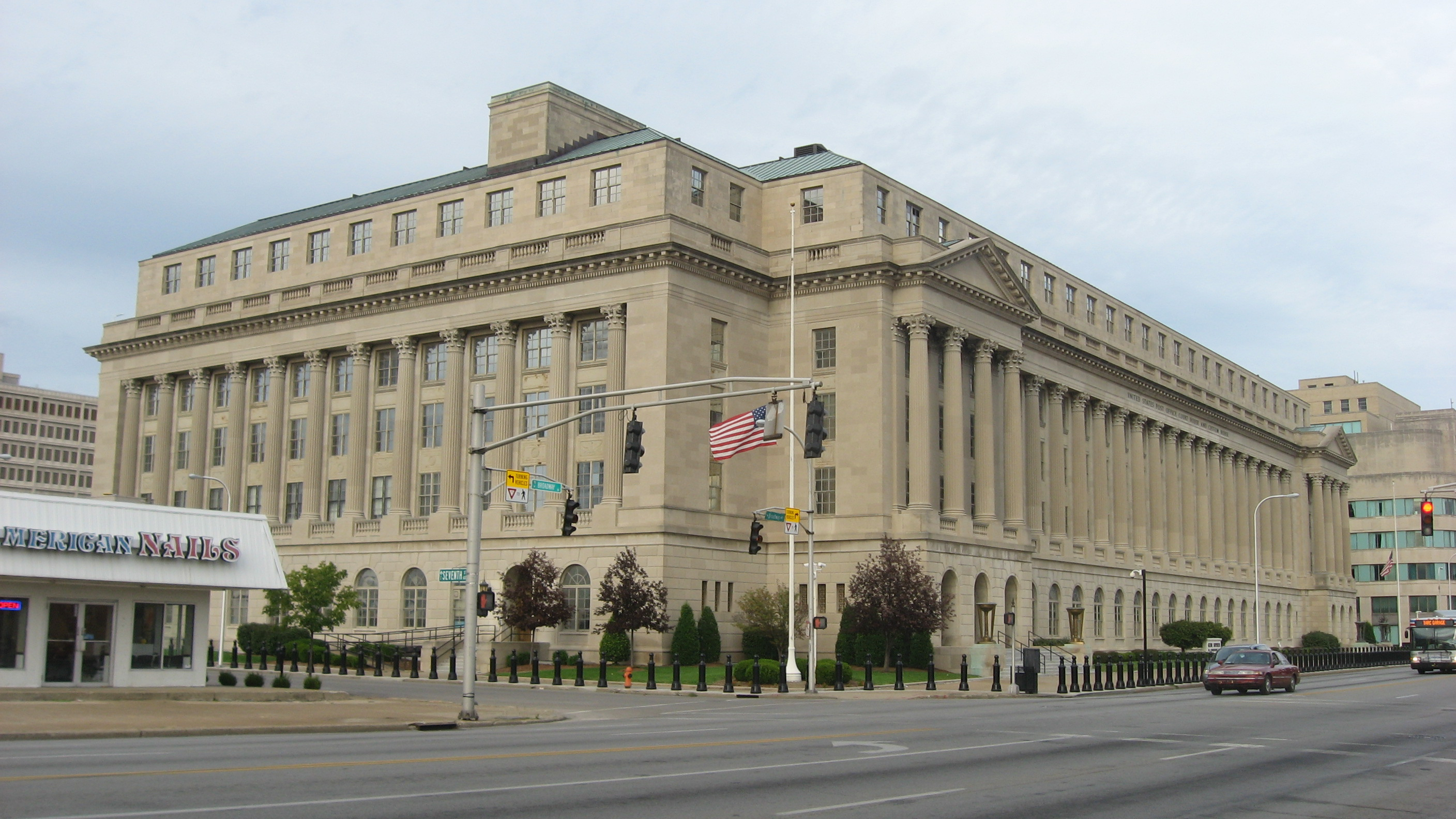 Front and western side of the Gene Snyder United States Courthouse, located at 601 W. Broadway (U.S. Route 150) in Louisville, Kentucky, United States. Built in 1932, it is listed on the National Register of Historic Places.